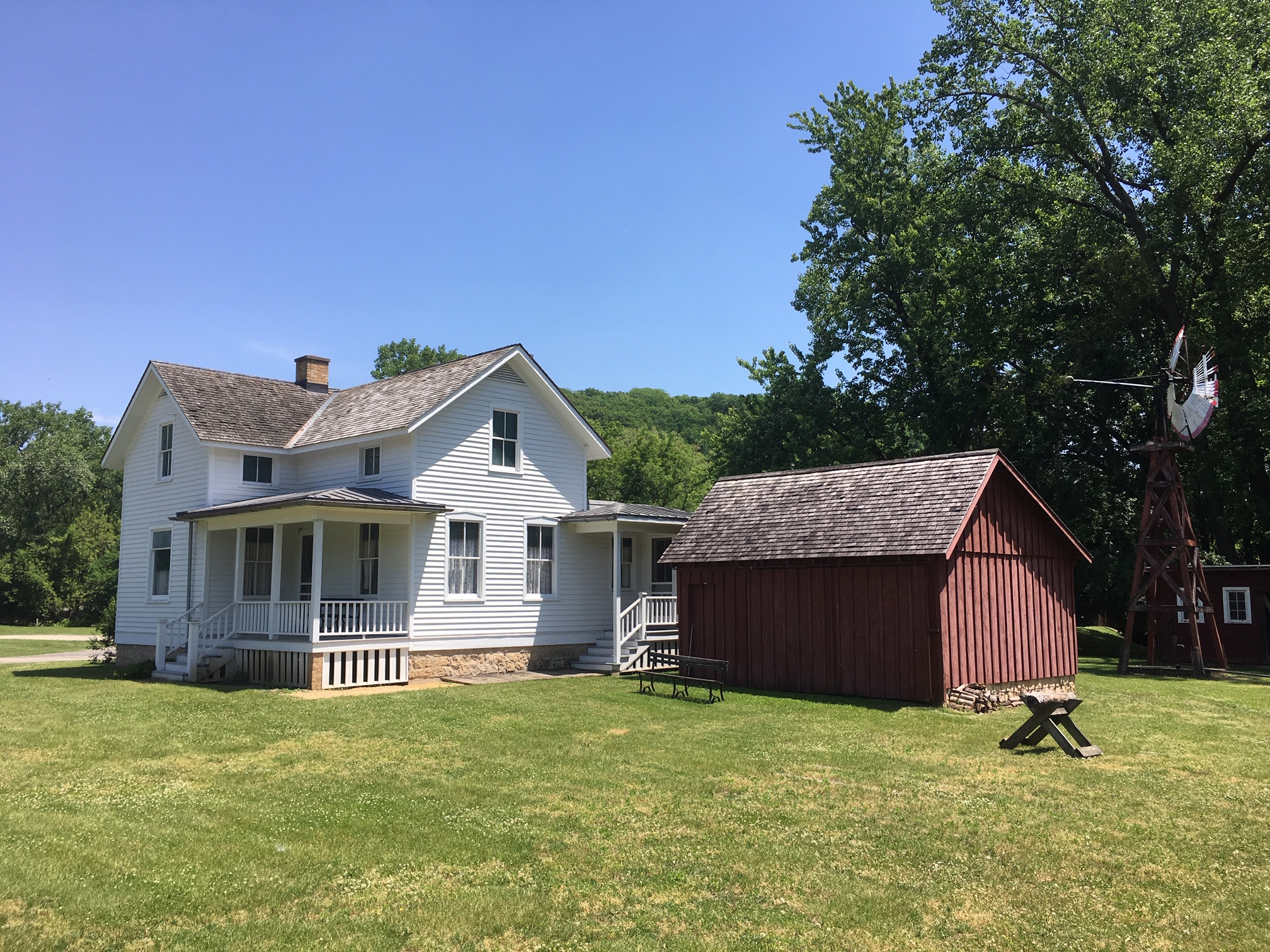 Recreated farm house and farm buildings based on 1901 U.S. Dept. of Agriculture plans built at Stonefield.